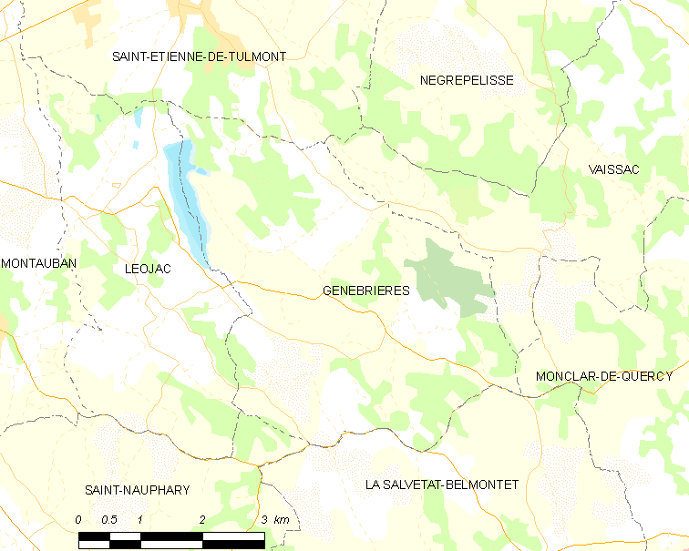 Map of French municipality Génébrières